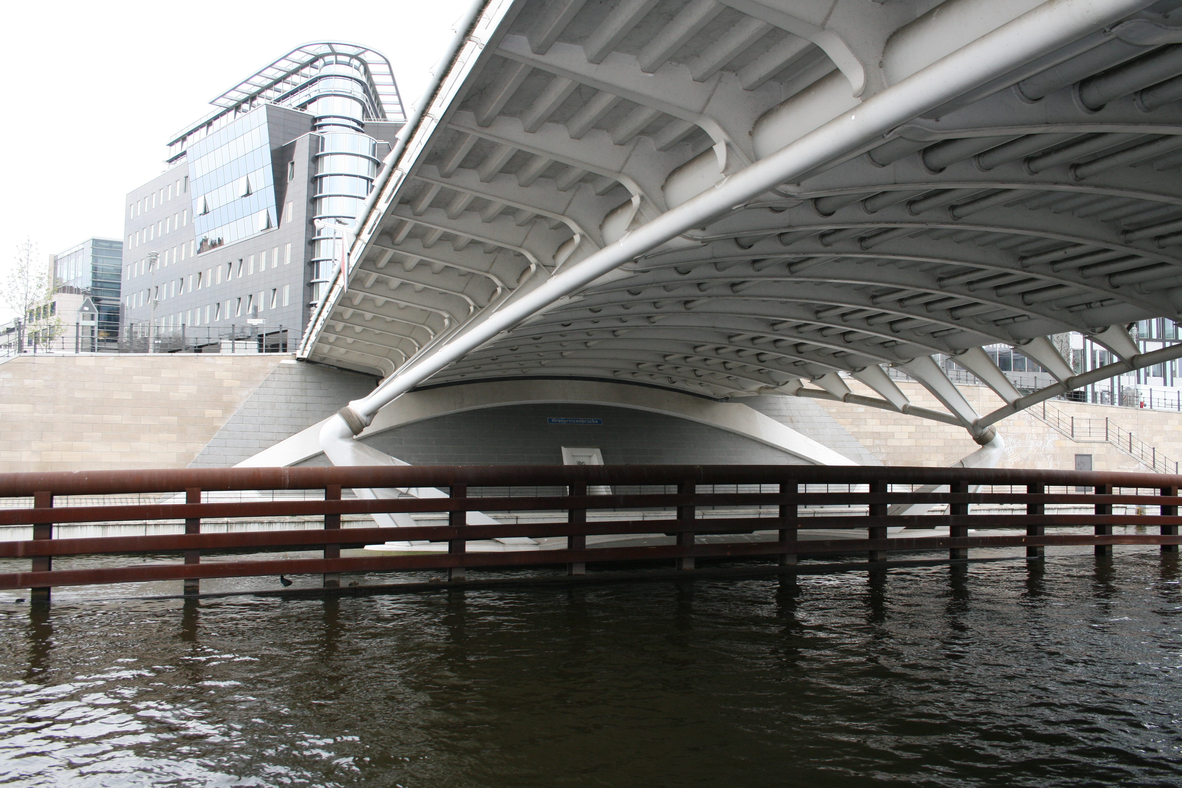 Kronprinzenbruecke in Berlin (Germany) upon the Spree river, nearby the house of the Bundespressekonferenz (permanent press conference, organized by the society of Berlin journalists).